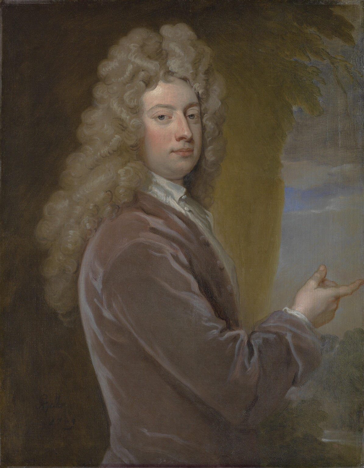 William Congreve, oil painting by Sir Godfrey Kneller, Bt (died 1723). All images in this batch have been confirmed as author died before 1939 according to the official death date listed by the NPG.